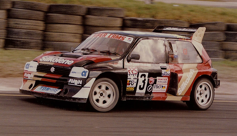 British rallycross driver Will Gollop driving his MG Metro 6R4 at Lydden Hill.